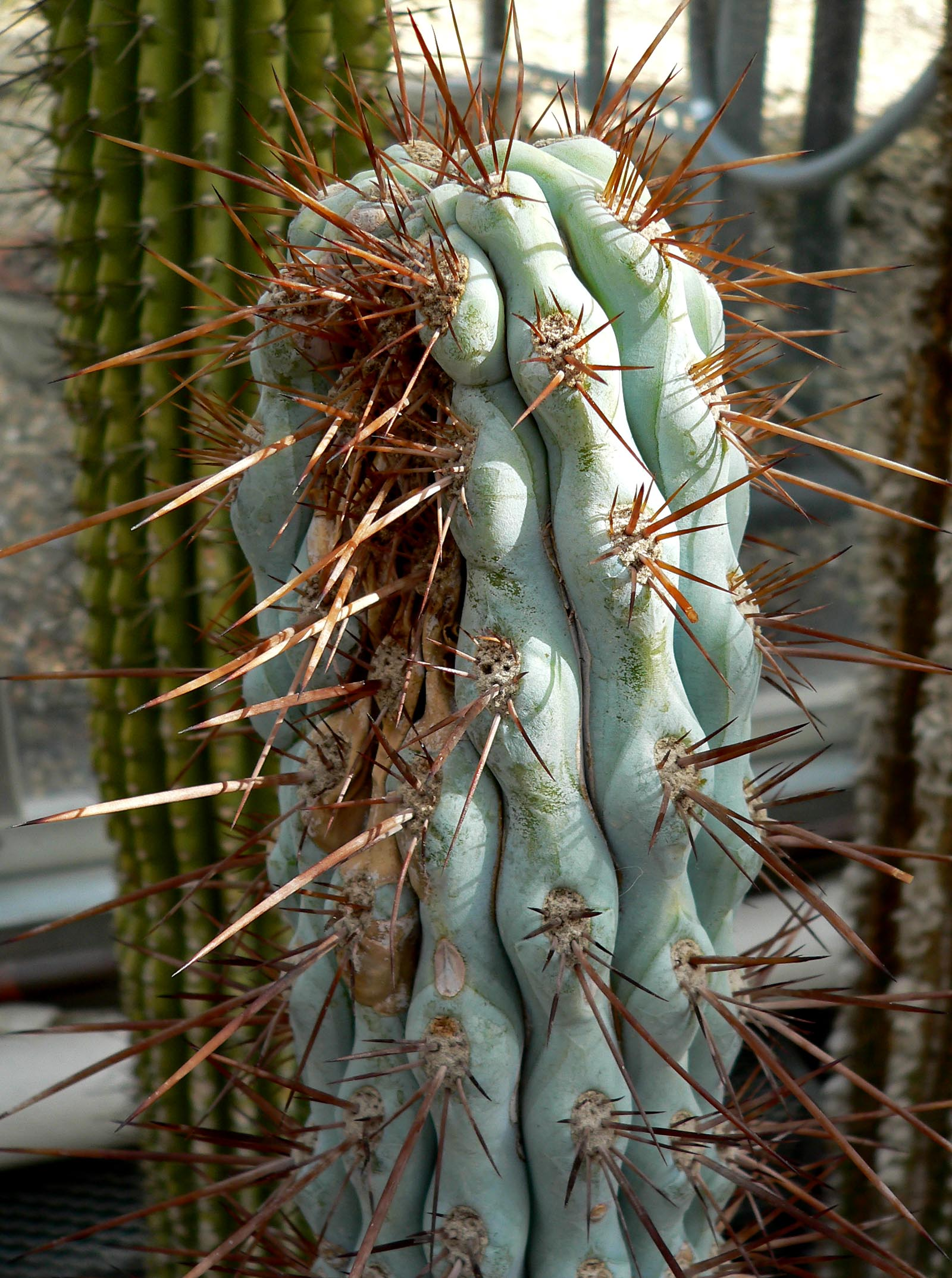 Photo of Azureocereus imperator at the University of California Botanical Garden